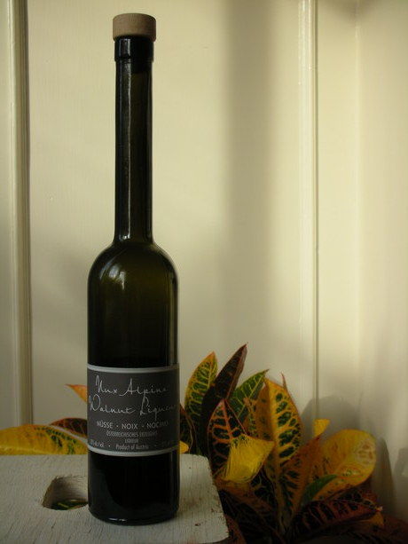 A bottle of Nux Alpina Nocino